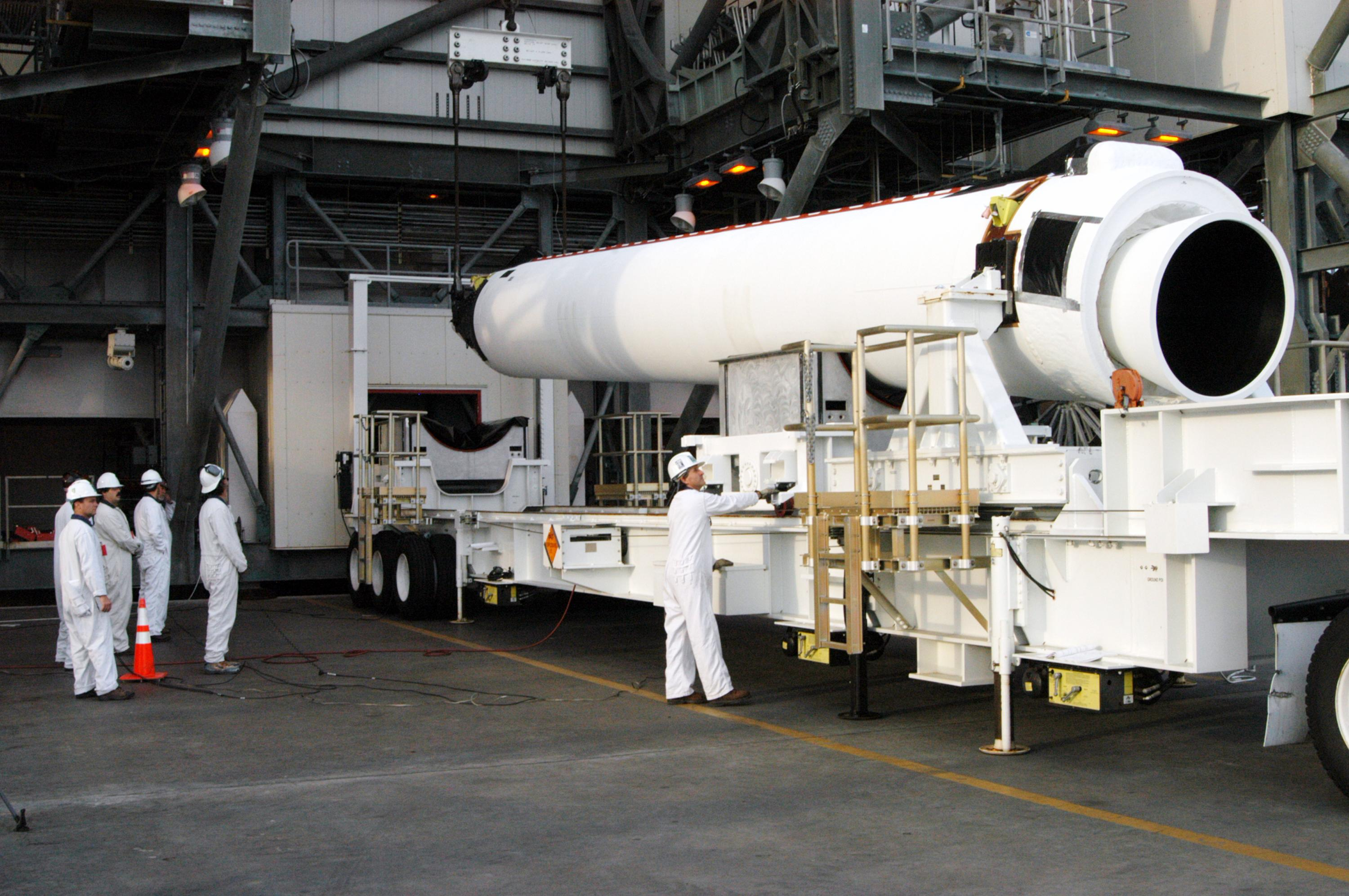 GEM-60 solid strap-on booster for Delta IV rocket On Launch Complex 37 at Cape Canaveral Air Force Station, Boeing workers prepare to raise the Solid Rocket Booster (SRB) to a vertical position. Then it will be lifted up the gantry and lowered to the Boeing Delta IV rocket for attachment. The Boeing Delta IV is the launch vehicle for the GOES-N satellite, the first of three for the National Oceanic and Atmospheric Administration that will provide continuous monitoring necessary for intensive data analysis. GOES-N will provide a constant vigil for the atmospheric "triggers" of severe weather conditions such as tornadoes, flash floods, hail storms and hurricanes. When these conditions develop, GOES-N will be able to monitor storm development and track their movements. NASA's Goddard Space Flight Center is responsible for development of the satellite and testing of the spacecraft and its instruments. GOES-N is scheduled for launch on May 4.